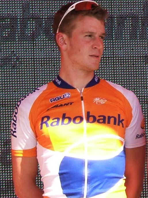 Named cyclist at the en:2009 Tour Down Under team presentation